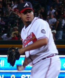 I took this photo on June 5, 2007 08:00, 8 June 2007 . . Chrisjnelson . . 227×273 (112,728 bytes)